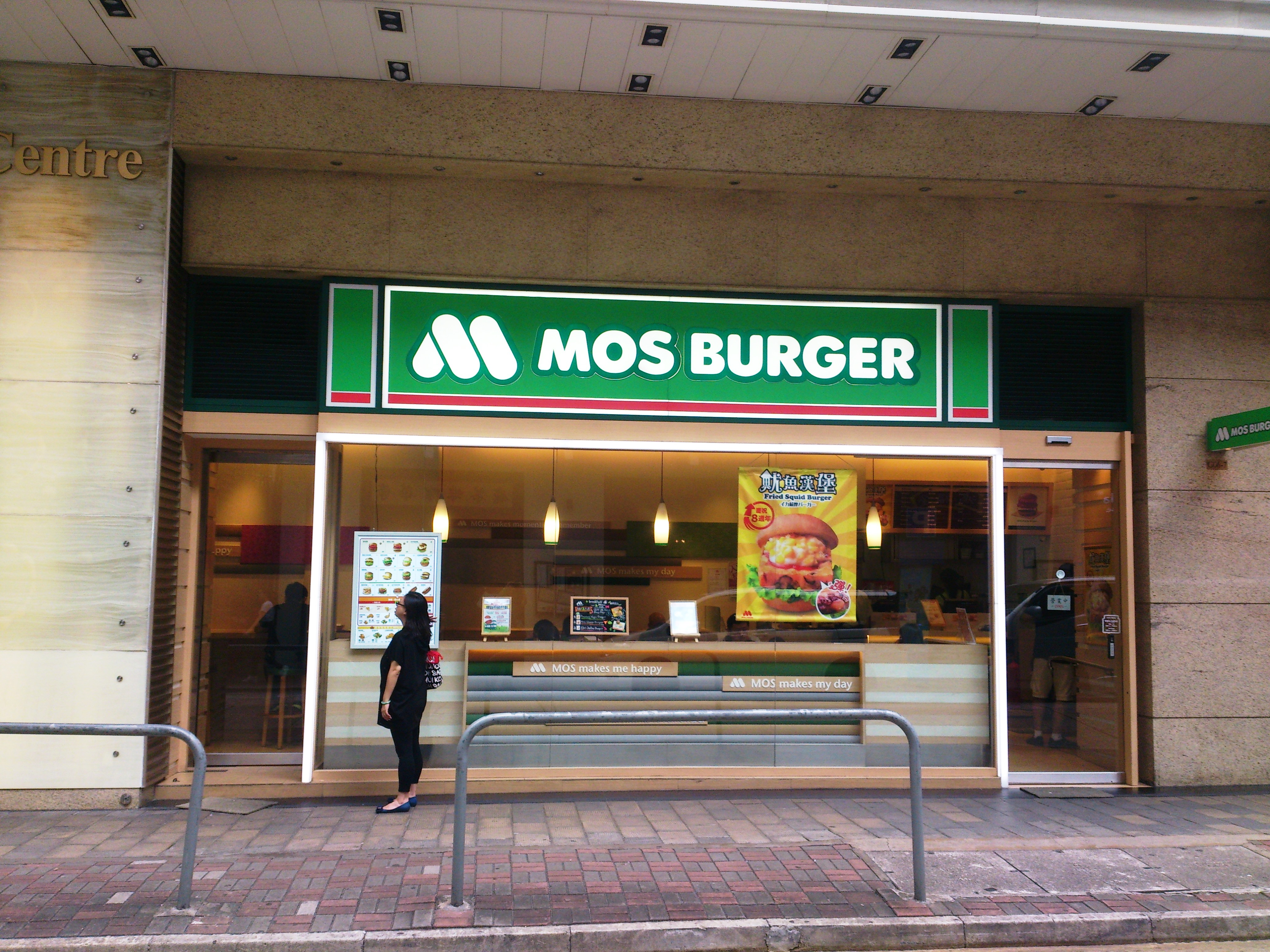 MOS Burger Wan Chai Branch